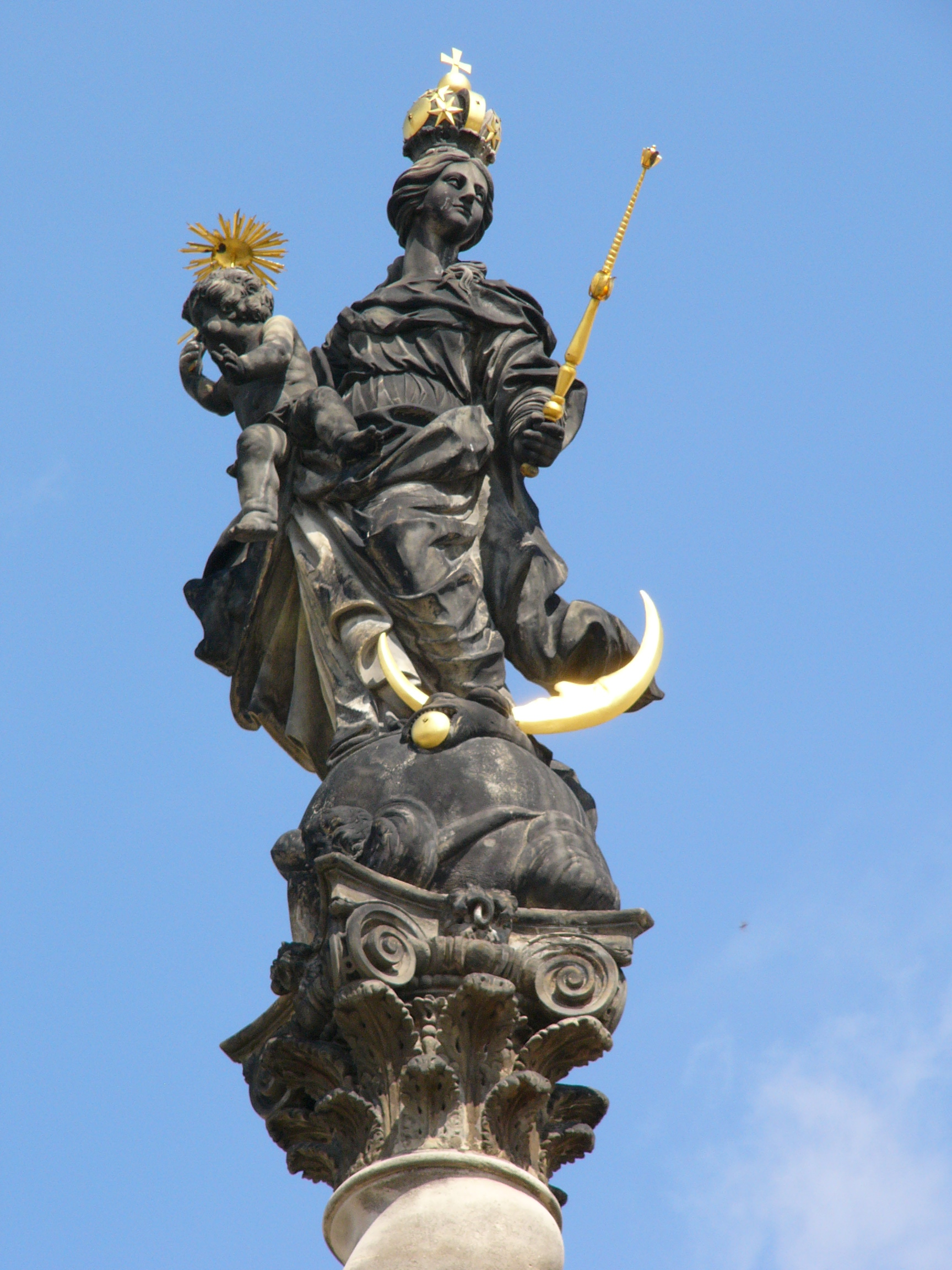 Statue of Virgin Mary on the top of Marian Plague column at Lower square in Olomouc (Czech Republic).